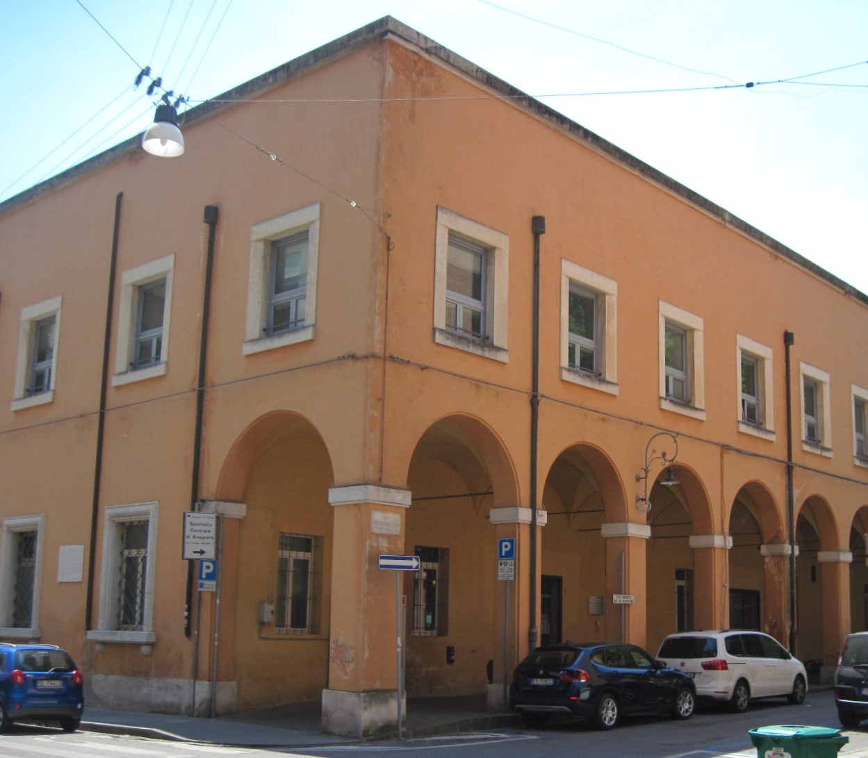 former barracks of the fascist period in Ferrara